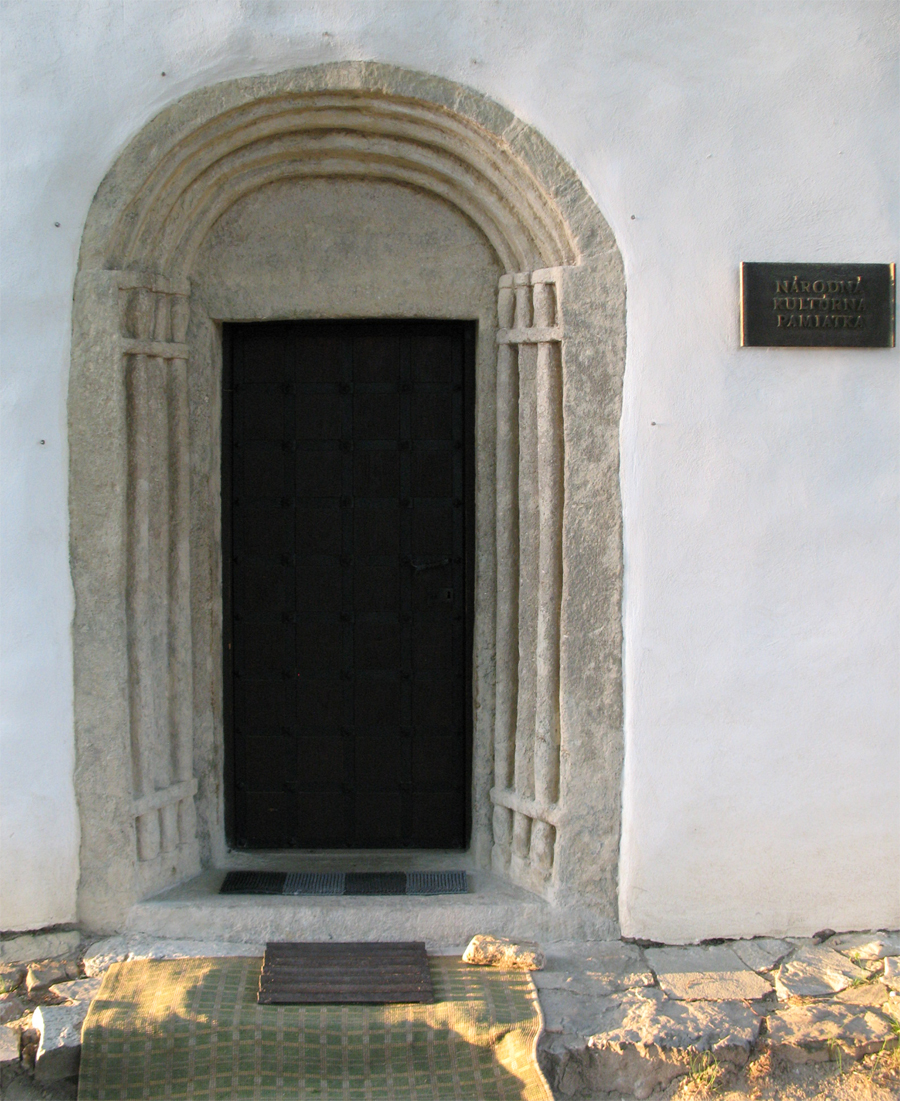 Church in Kostoľany pod Tribečom